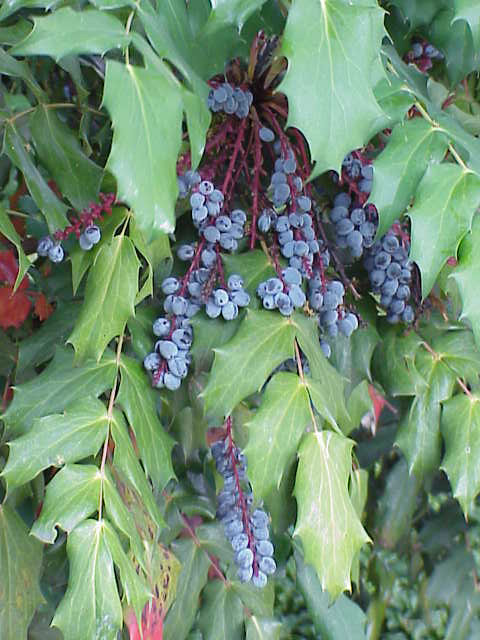 Species: Mahonia bealei Family: Berberidaceae Image No. 1